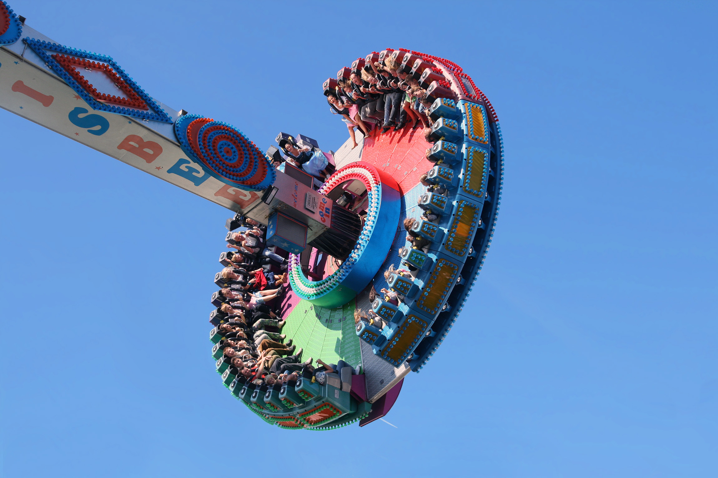 The Oktoberfest is a two-week festival held each year in Munich, Bavaria, Germany during late September and early October. It is one of the most famous events in the city and the world's largest fair, with some six million people attending every year.